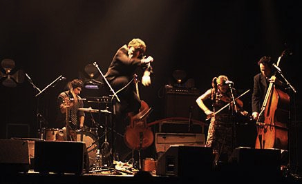 The French rock band Dionysos - Le Splendid Lille (2003 March)